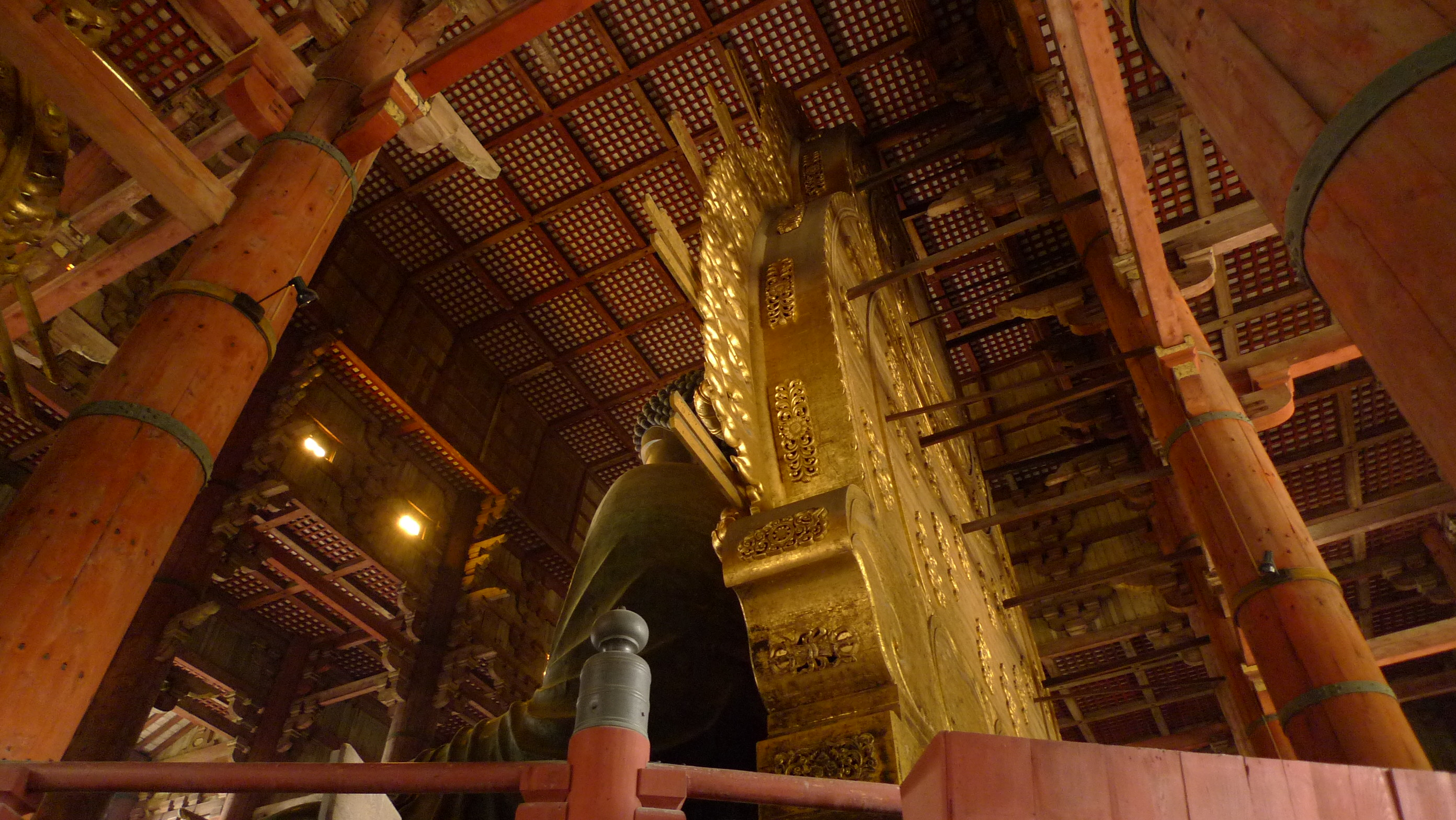 The statue of Buddha at Todai-ji in Nara, Japan.